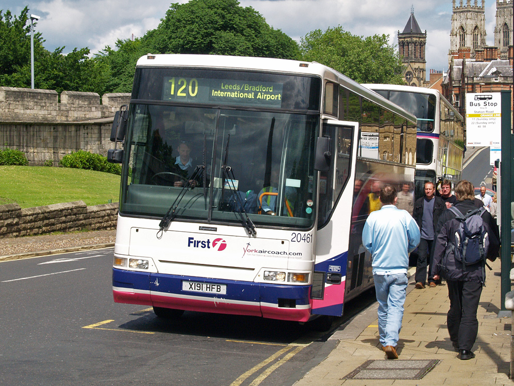 First York Limited (originally First Wessex Coaches) 20461 X191 HFB, a Volvo B10M-62 built 2000 with a Plaxton ‘Expressliner 2’ C49Ft body on Station Road in York with the 14:45 York Railway Station to Leeds/Bradford International Airport 120 service. Thursday 12th June 2008